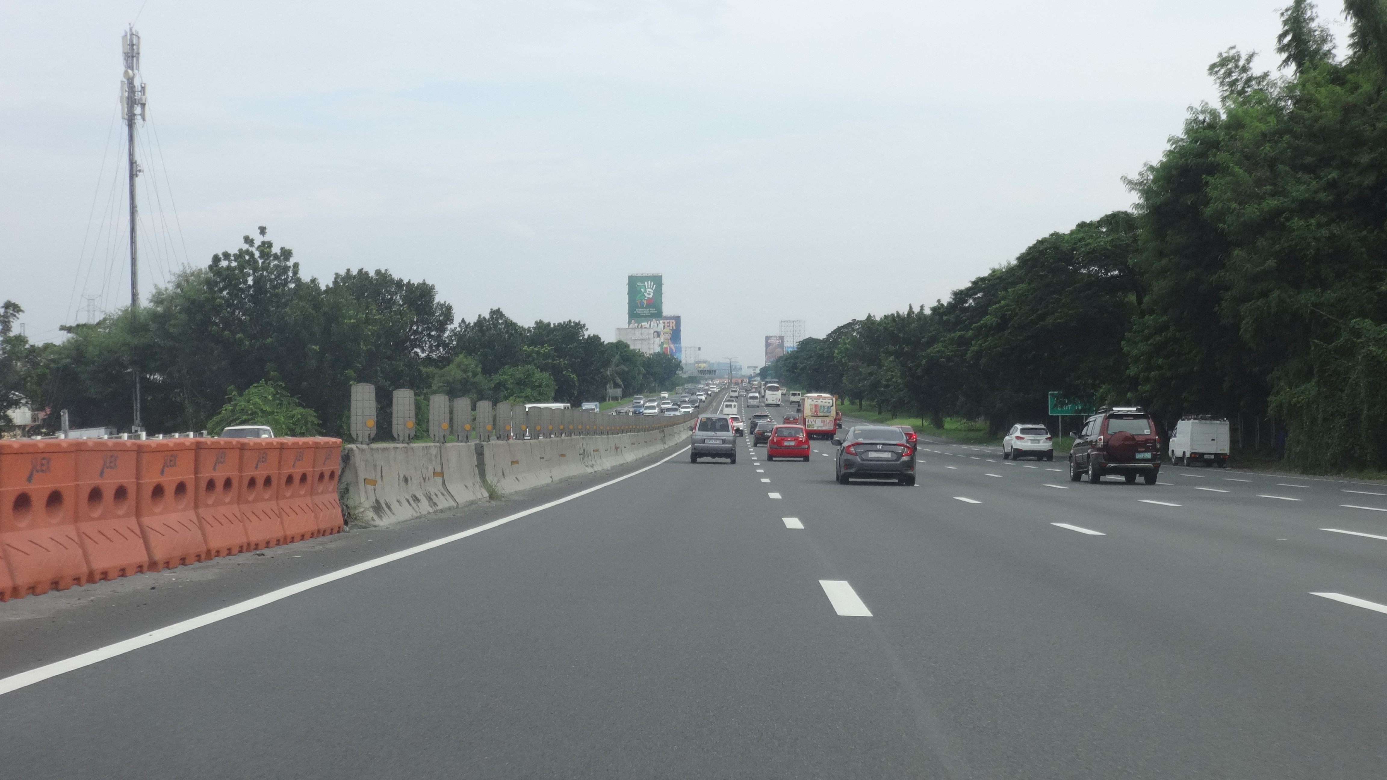 South Luzon Expressway (SLEX) in Susana Heights, Muntinlupa City